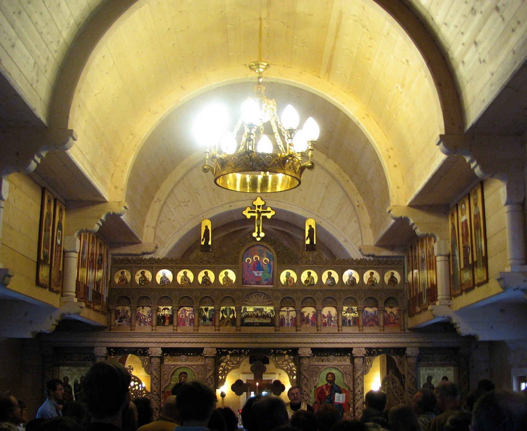 Romanian orthodox church in Salzburg, Austria (inside)